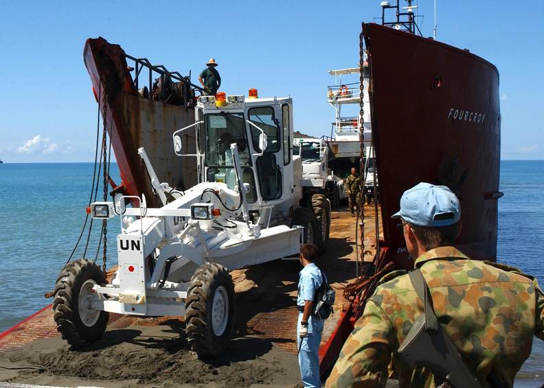 Timor-Leste: Australian peacekeepers unload engineering equipment “Australian peacekeepers serving with the UN Transitional Administration in Timor-Leste (UNTAET) assist their Japanese colleagues with the unloading of heavy engineering machinery' [Peacekeeping brochure] Photo: Australian Defence Force